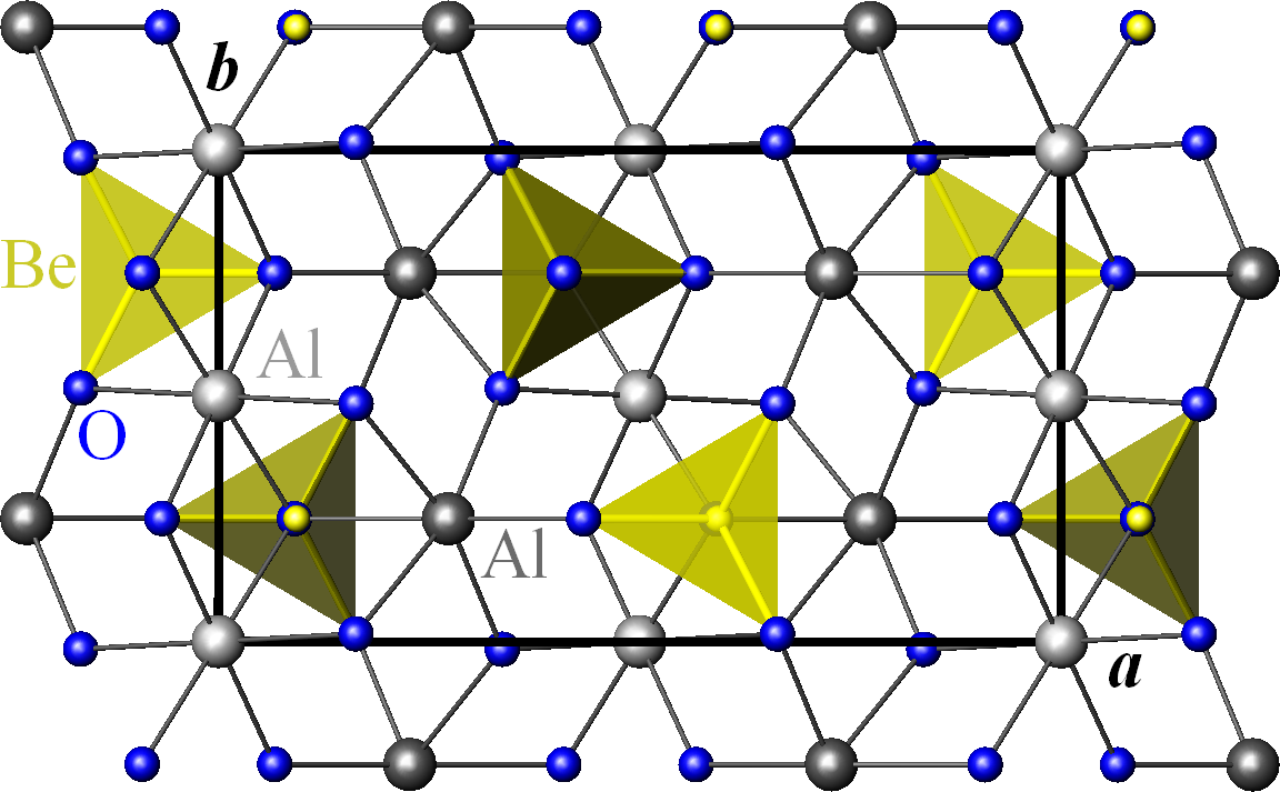 Crystal structure of alexandrite, Be(AlO2)​2, Pnma, projected onto the (a,b) plane.